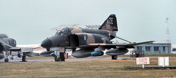 McDonnell Douglas F-4E-37-MC Phantom 68-0365 of the 31st TFW, Homestead Air Force Base, Florida.